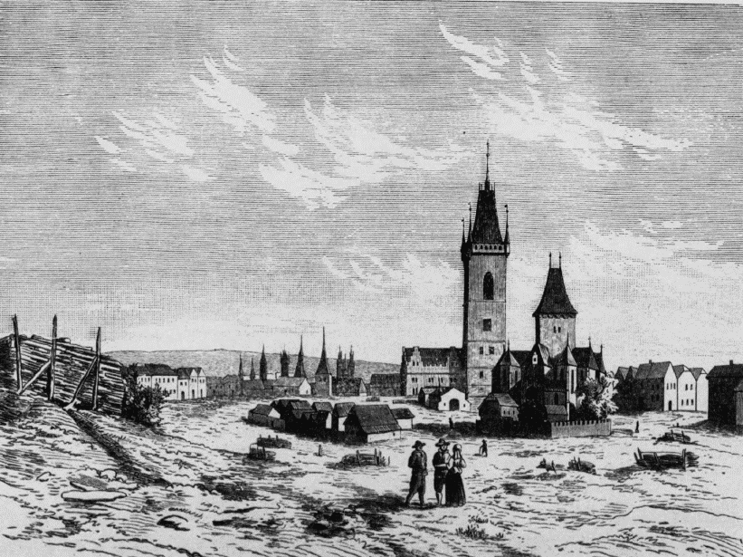 Karlovo náměstí (Charles Square) in Prague (Dobytčí trh - Cattle market then) in 16th century Unknown